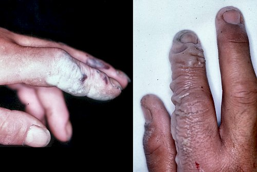 Different aspects of left and right HF-burned hands. Topical hydrofluoric acid burns typically do not show visible evidence of injury for a day or two after exposure. By then, effectiveness of topical or systemic calcium treatment is diminished.